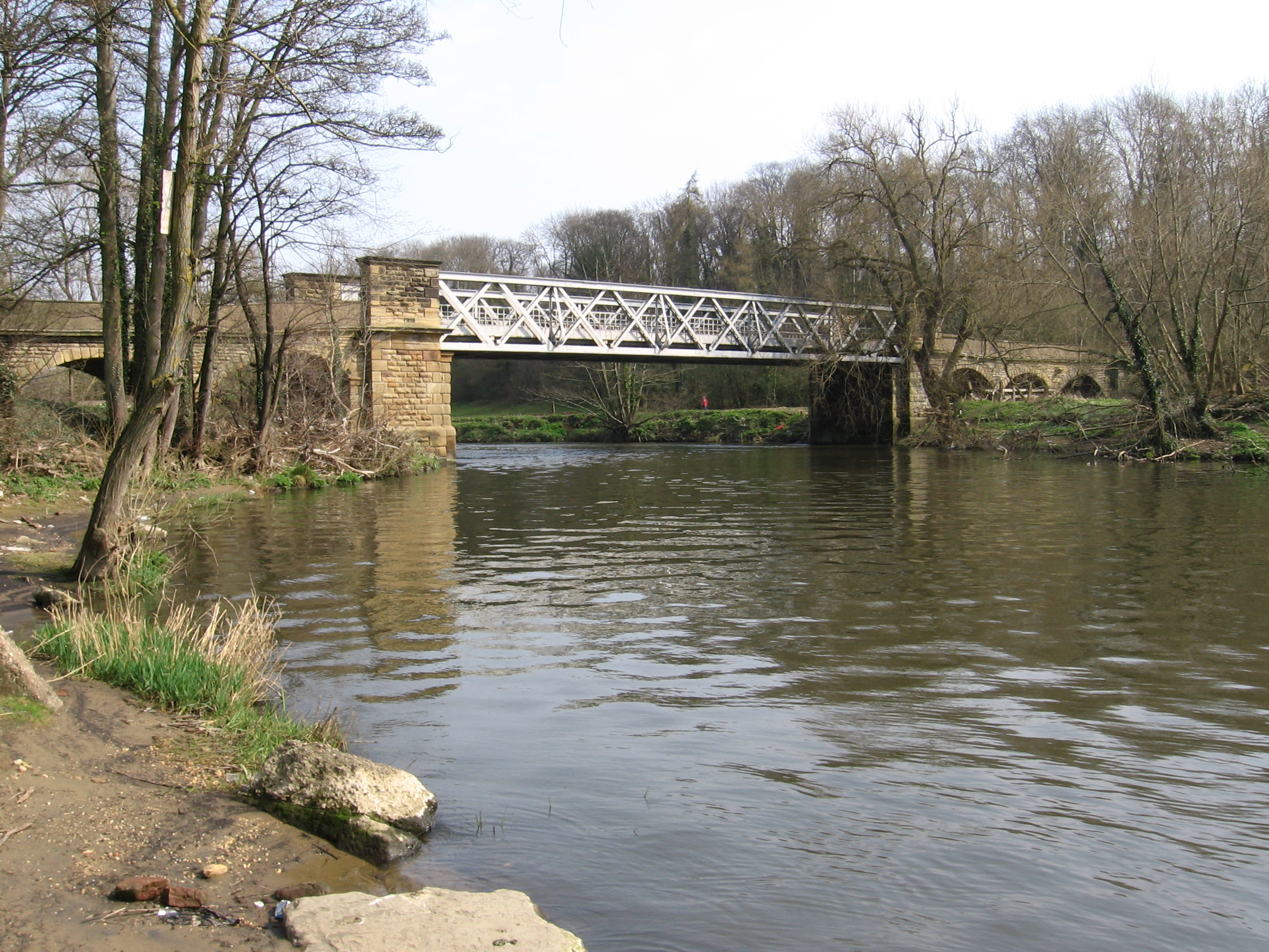 Sprotbrough - bridge over River Don